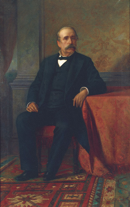 Greek tycoon and philanthropist George Averoff painted by Pavlos Prosalentis (Corfu 1857-Alexandria 1894).